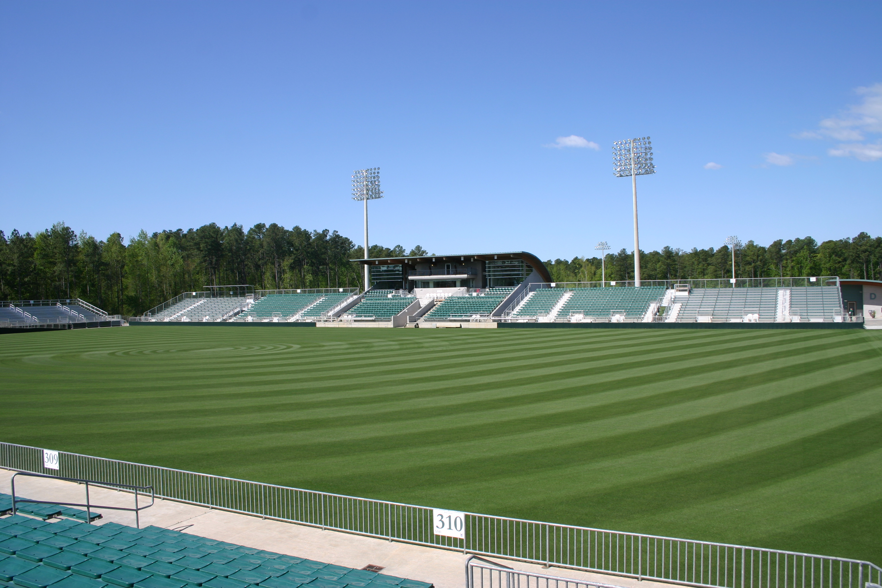 Photo by W. Jarrett Campbell uploaded to Flickr under Creative Commons